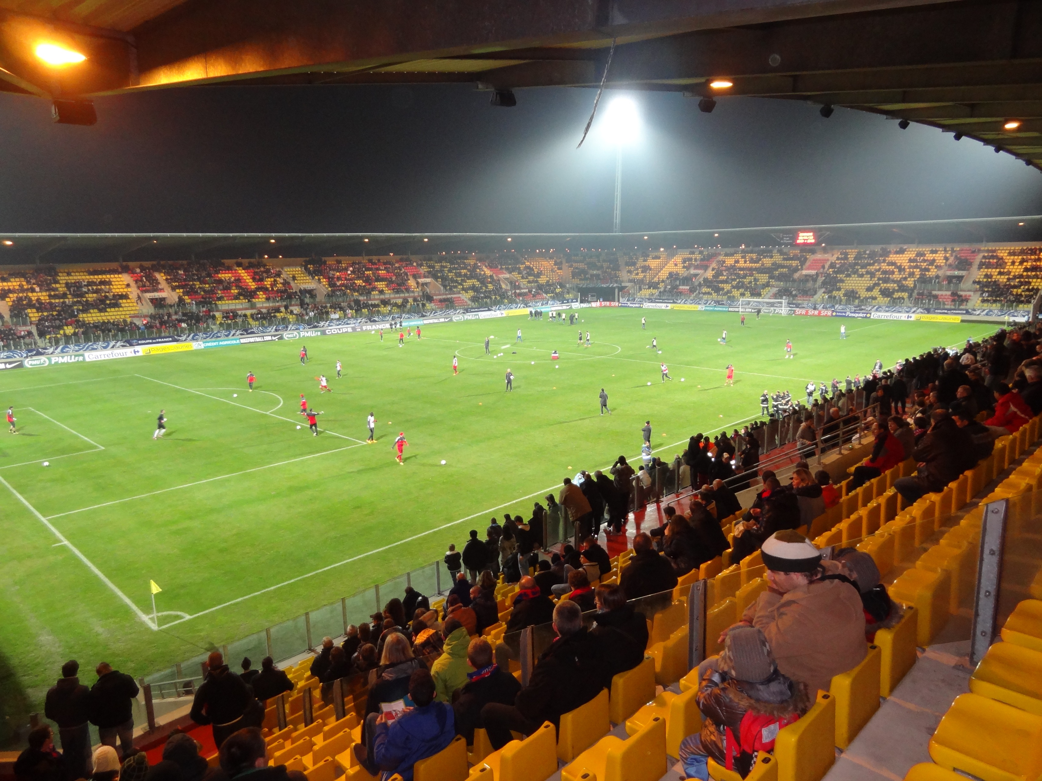 Stade de l'Épopée (Calais), Arras - PSG